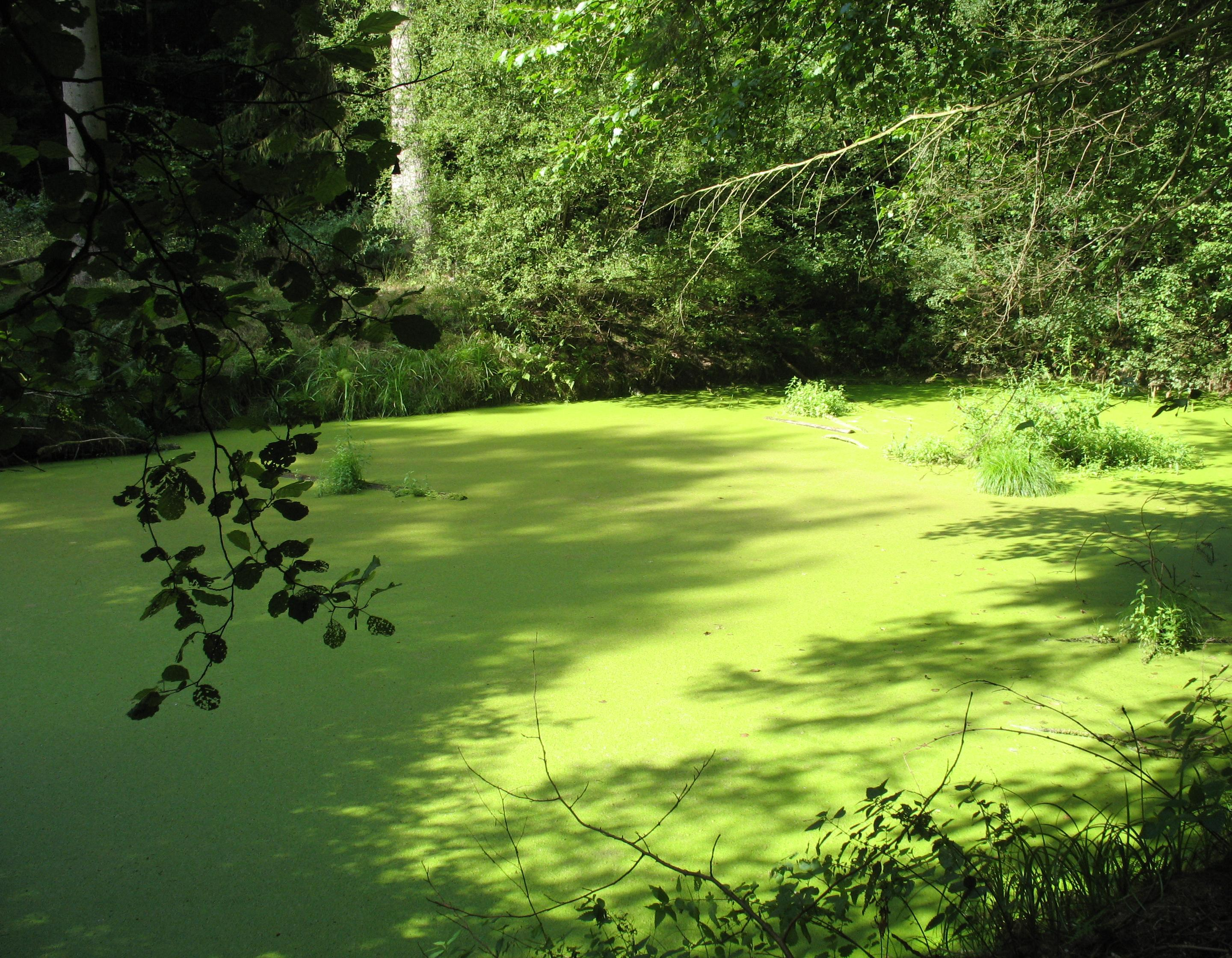 Pond in Reinhäuser Wald in Gleichen in Lower Saxony, Germany